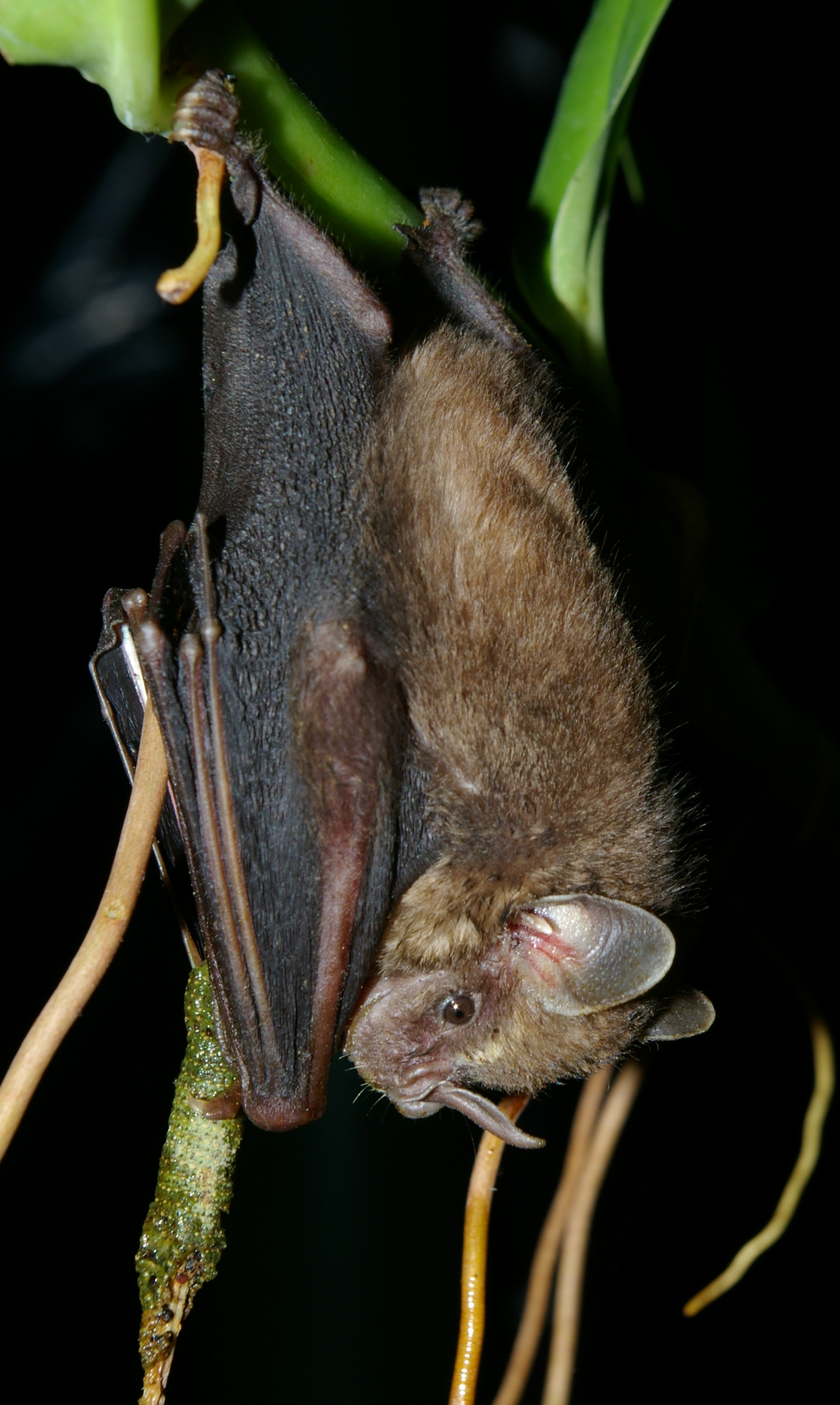 Pygmy Fruit-eating Bat, Artibeus phaeotis, feeding on Piper arboleum